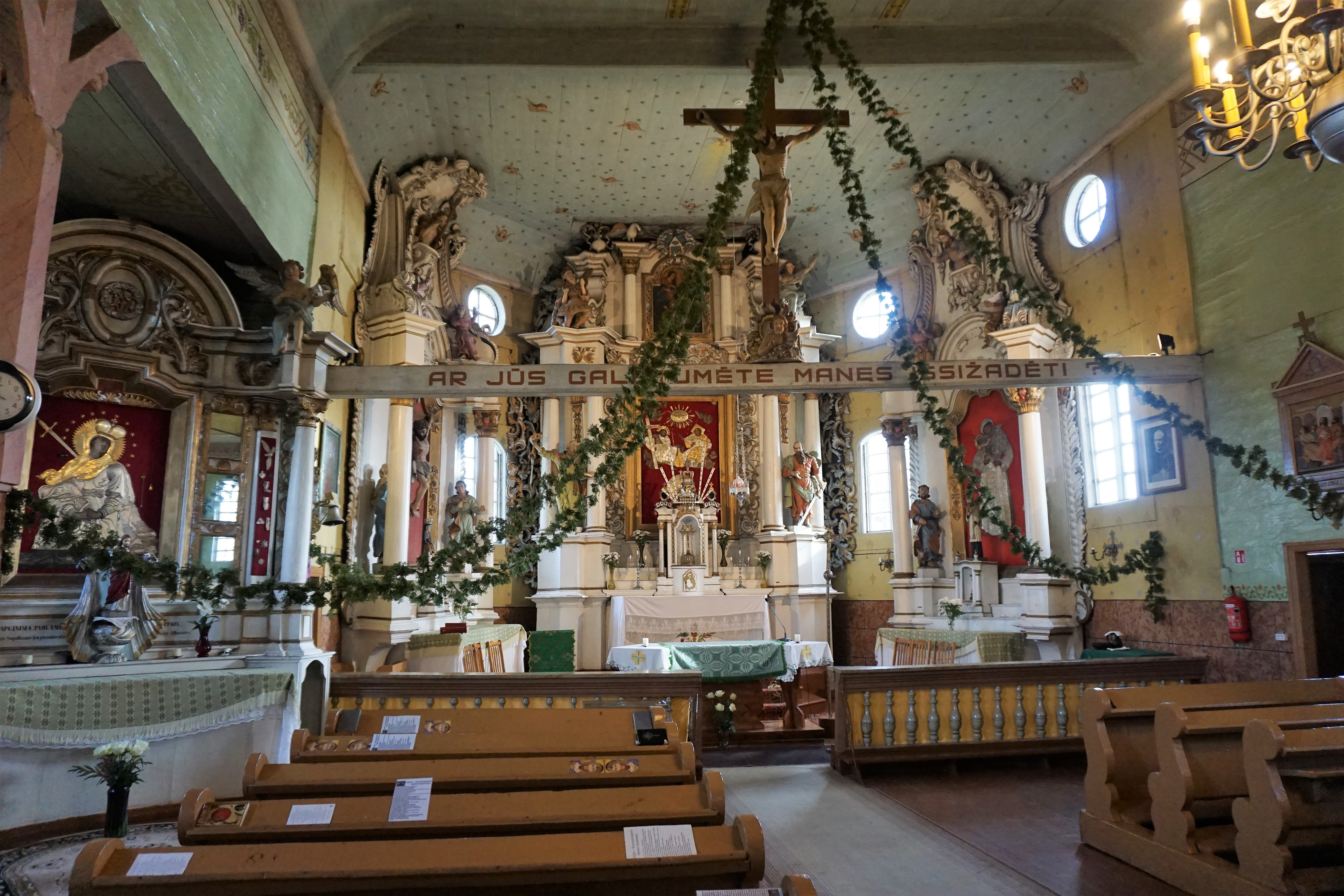 Interior of Church of the Holy Trinity, Pikeliai, Lithuania